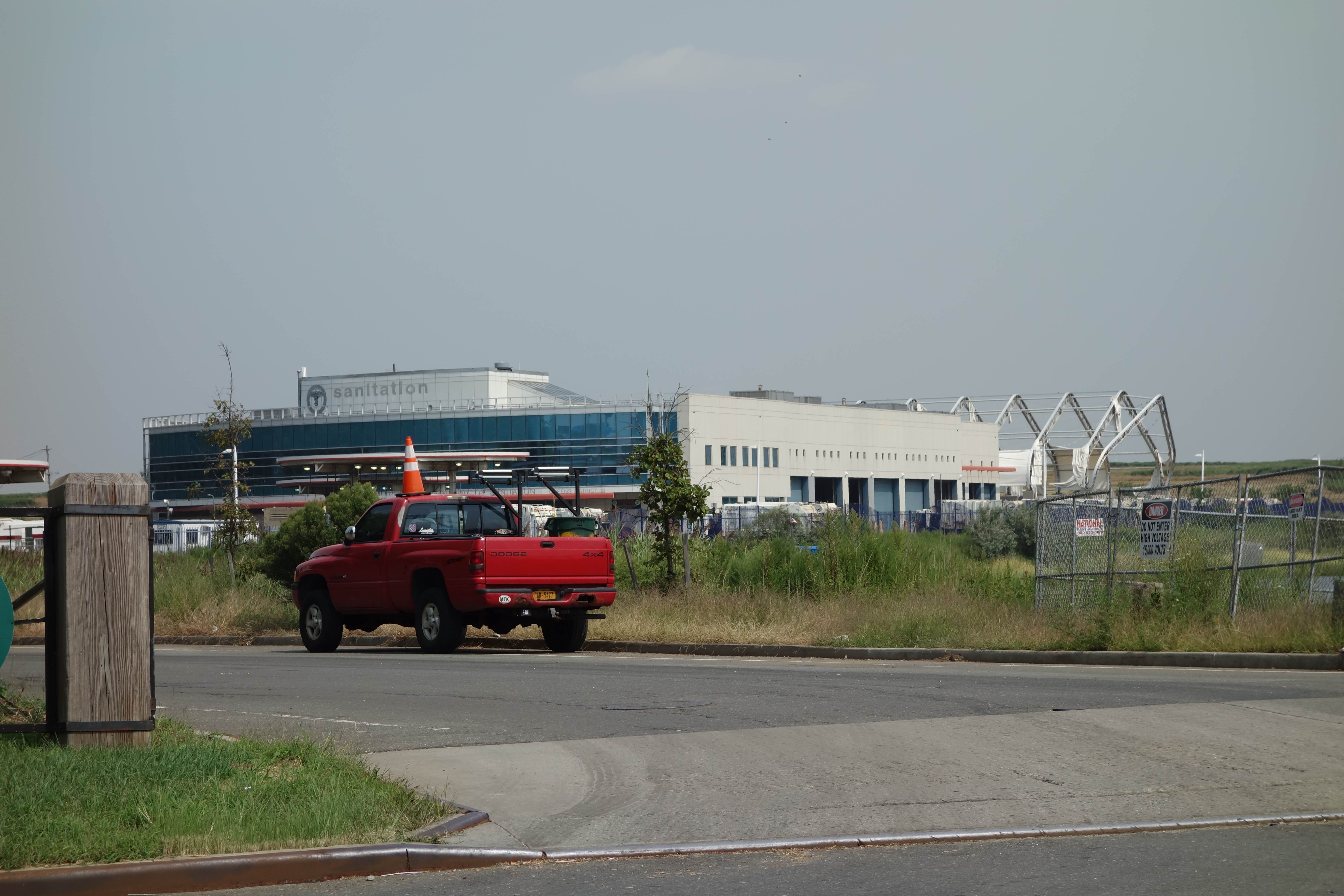 Looking north at the entrance to the DSNY facility at the former Edgemere Landfill adjacent to Rockaway Community Park, at Almeda Avenue and Beach 51st Street / Conch Place near the Conch and Norton Basins in Edgemere, Queens. Rockaway Community Park in its current state is the only portion of the landfill successfully developed into parkland. The landfill continues to contain the DSNY Queens District 14 Garage (pictured), and a collection facility for the gas emitted from the landfill.